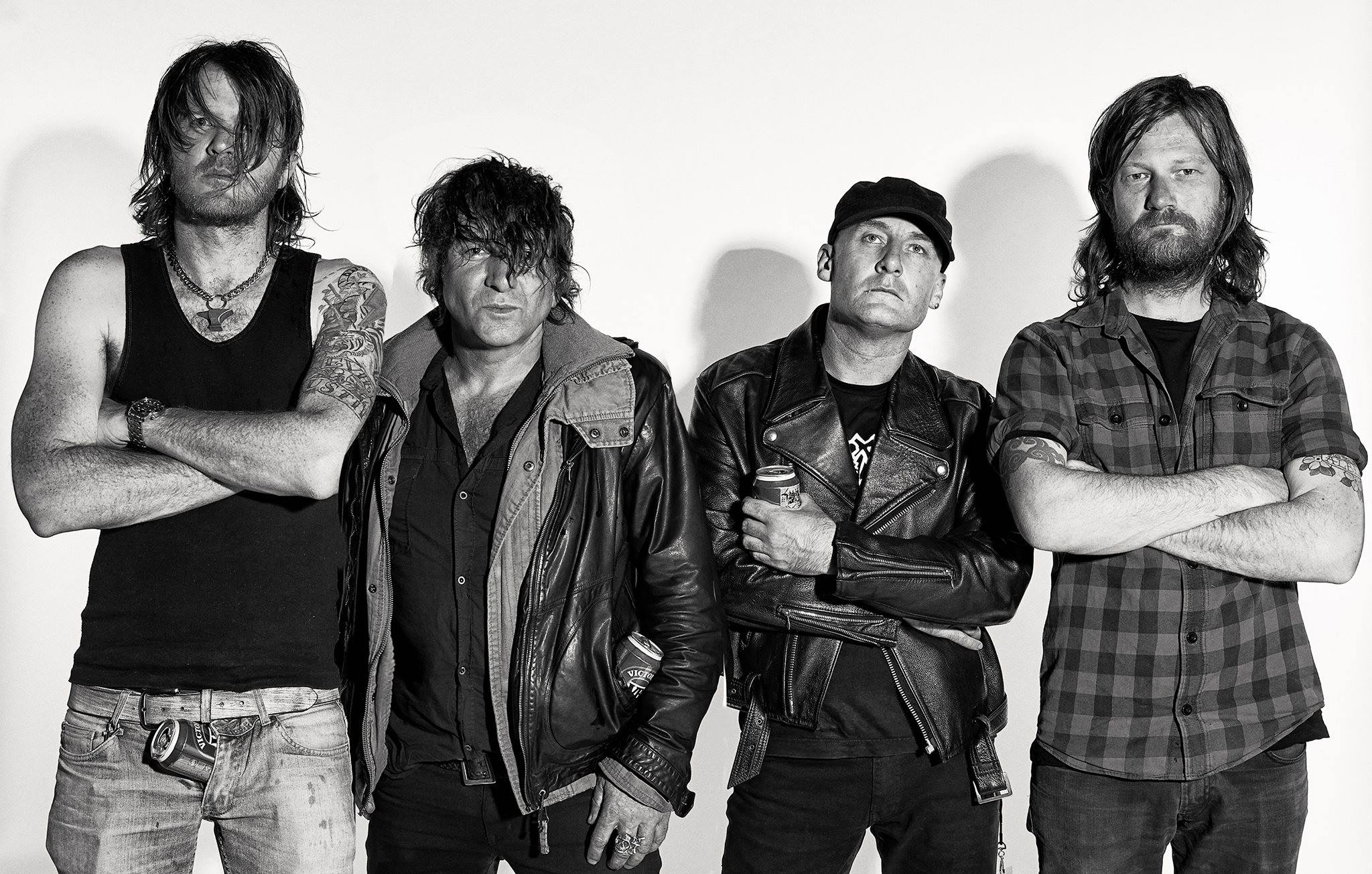 Mammoth Mammoth pose for a photo after the show